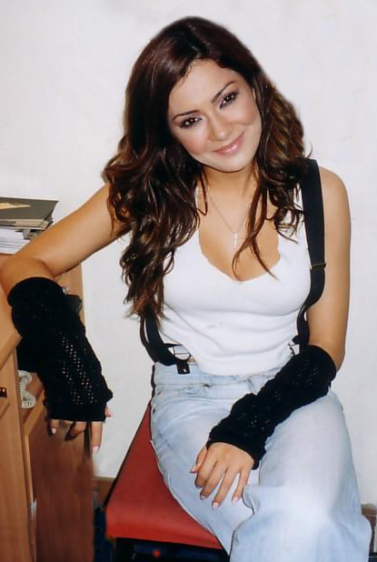 Picture I took of Apostolia Zoi backstage at club Apollon in 2005. Cropped for wikipedia for article Apostolia Zoi.